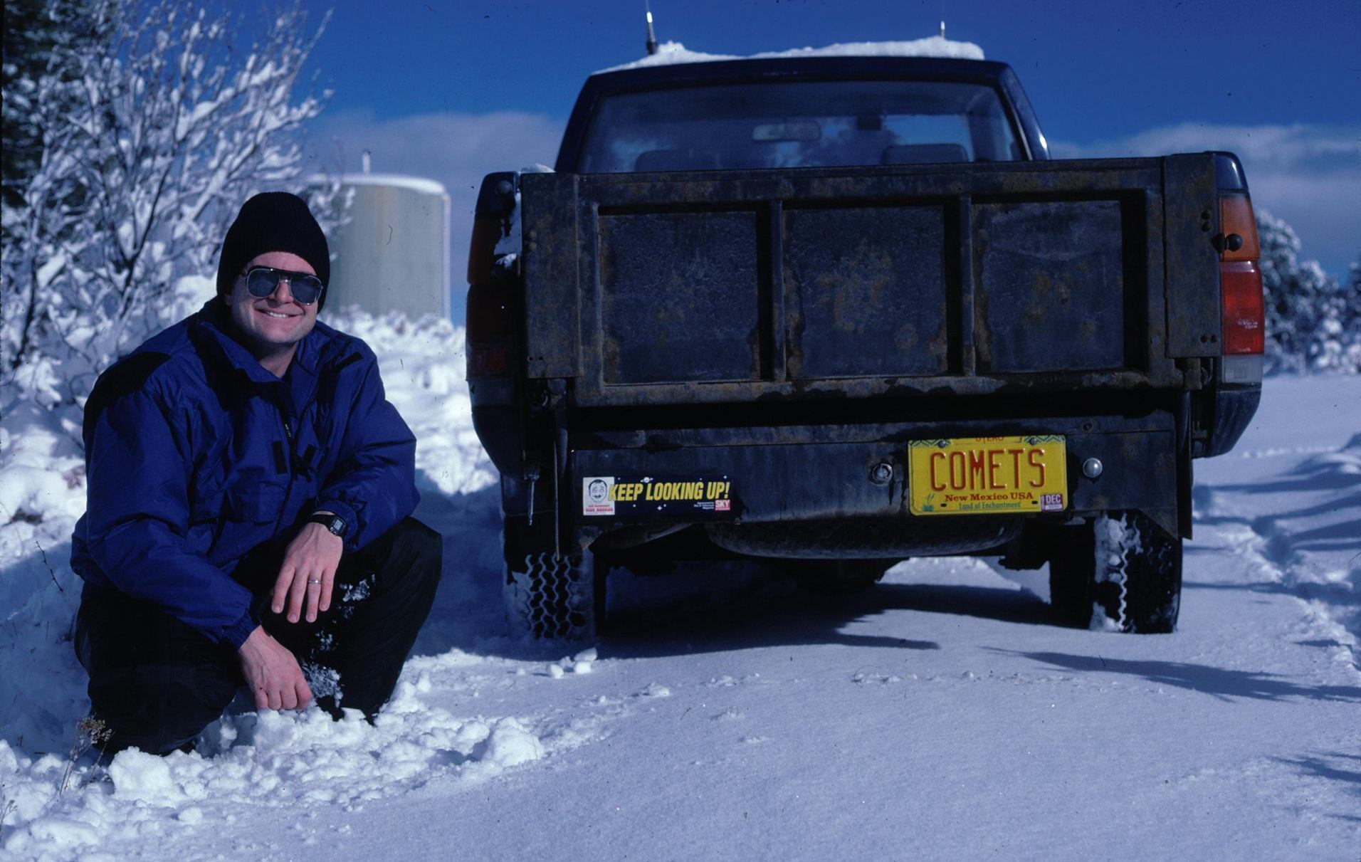 Howard J Brewington, comet hunter, in Cloudcroft, New Mexico.